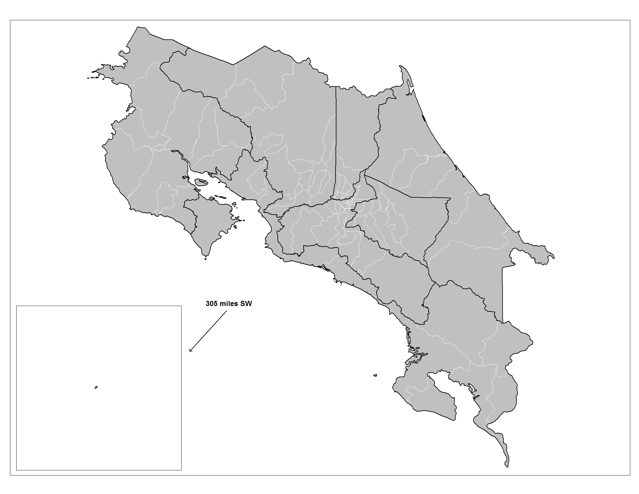 Map of the cantons of Costa Rica. Created by Rarelibra 20:34, 10 April 2007 (UTC) for public domain use, using MapInfo Professional v8.5 and various mapping resources.